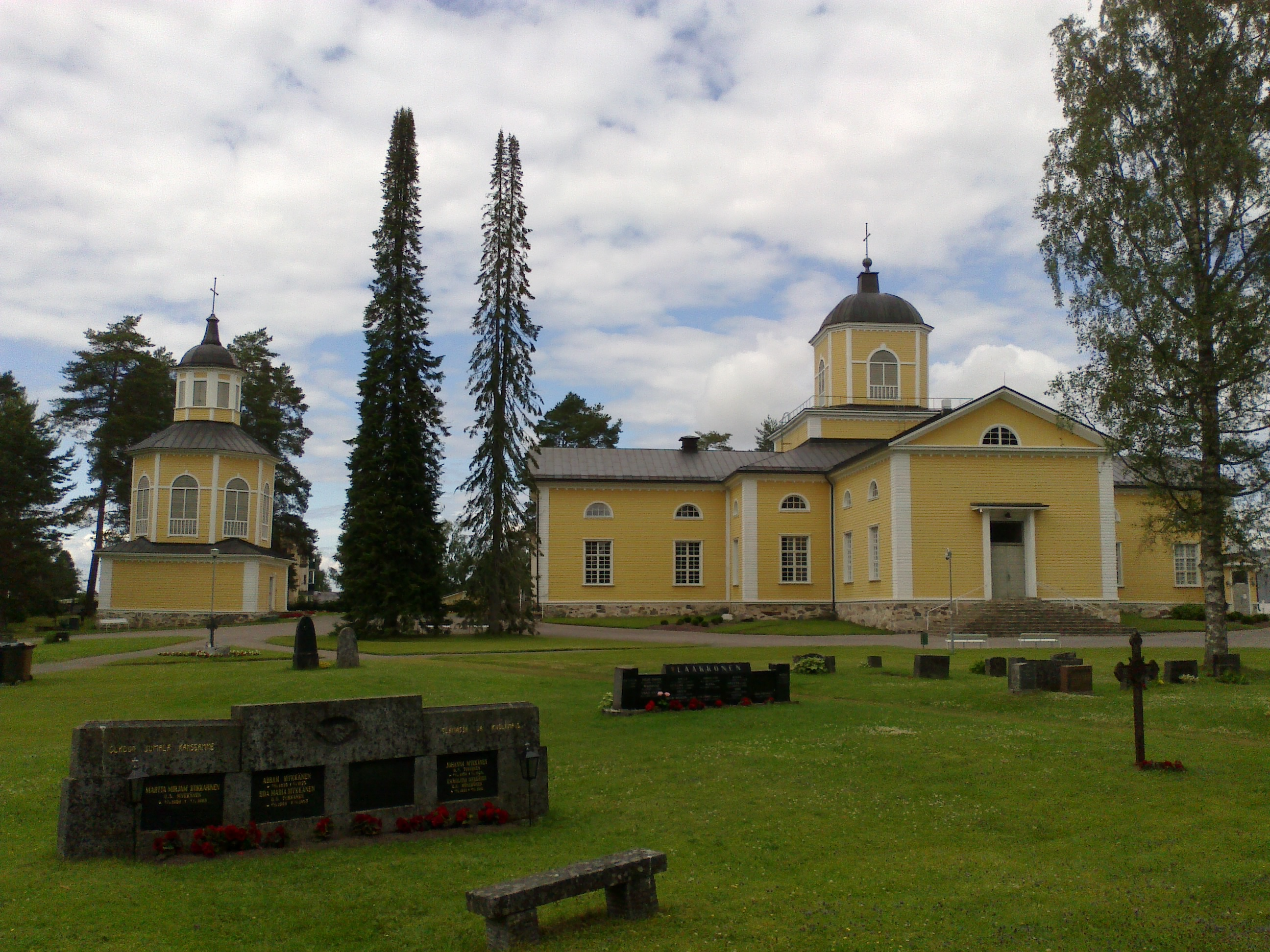 Architect of the Maaninka church was Carlo Bassi. Built 1826–1845. The church (985 square meters) seats 1200.